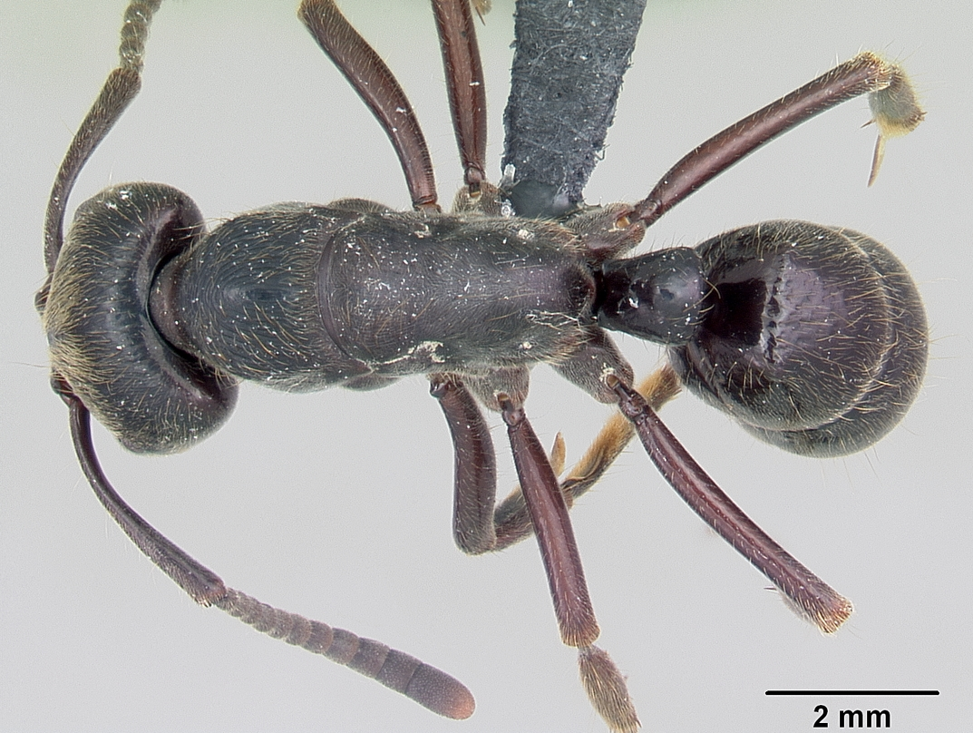 Dorsal view of ant Pachycondyla tarsata specimen casent0003140.